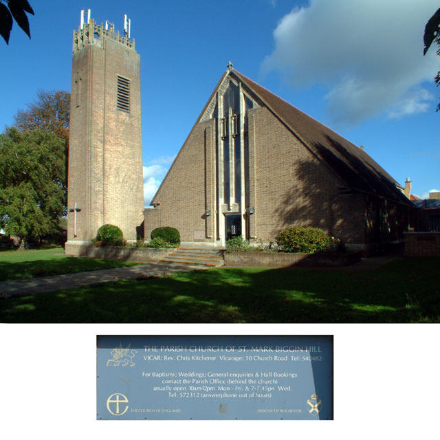 St Mark's, Biggin Hill TN16. Maybe this should be classified as a church-with-telephone-antennae ... perhaps the vicar exchanges texts with the Almighty? Although consecrated in 1959, work was not completed on St Mark's Church until 1975. It replaced a temporary building, of timber clad in corrugated iron, which dated from 1903.